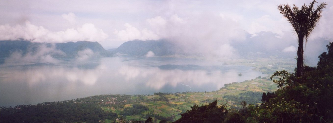 Photo taken by MichaelJLowe - a panorama of Lake Maninjau.